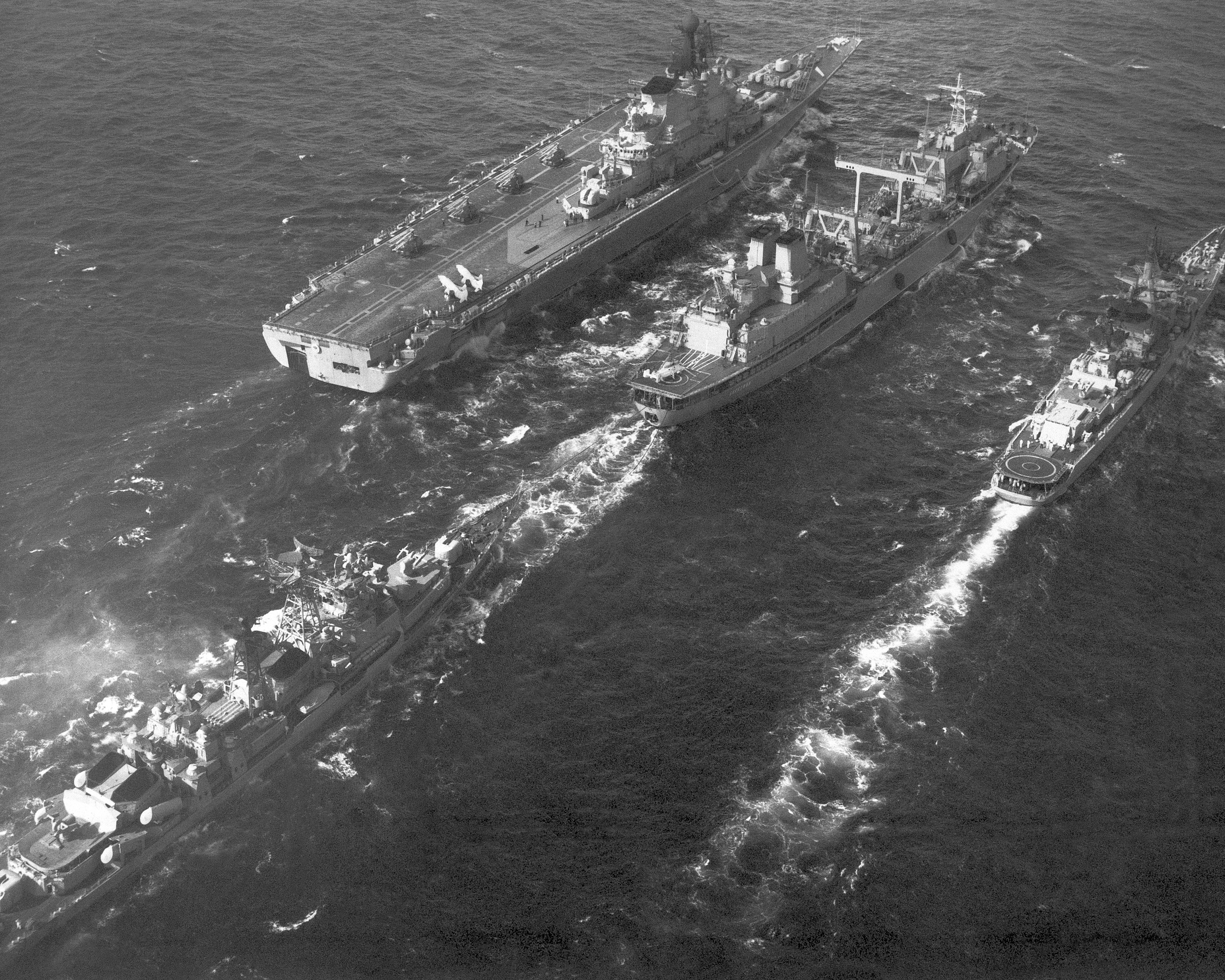 Aerial starboard quarter view of the Soviet replenishment oiler BEREZINA (center), simultaneously refueling the aircraft carrier KIEV (left), a Kresta II class guided missile cruiser (right), and a Mod Kashin class guided missile destroyer (behind).